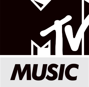 MTV Music 2013 logo. The first uploaded version with the black box for "music" is not accurate. The box was always white, also before 2015. Proof. The current grey-ish box is also not accurate, but probably made to work better on light backgrounds.